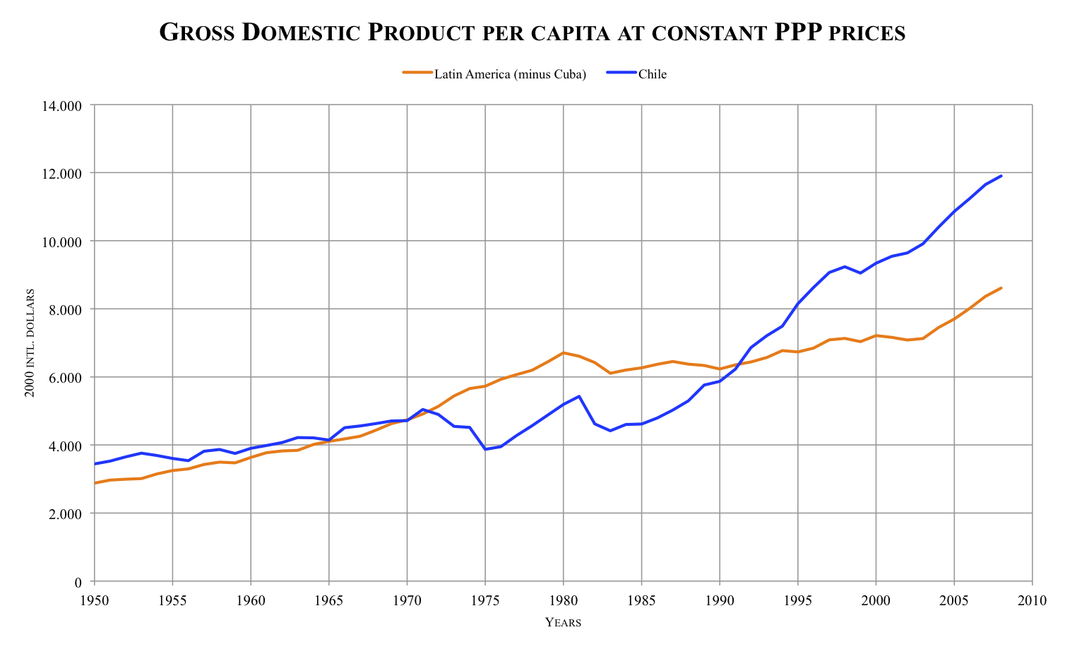 Gross domestic product per capita at constant PPP prices, 1950-2008. Latin America (minus Cuba) in orange, and Chile in blue (2000 international dollars). Sources: ECLAC(1.1.1.1 Producto interno bruto, A.1 Población total and A.5 Tipos de cambio); IMF's April 2012 WEO database (Implied PPP conversion rate for 2000). Latin America data includes: Argentina, Bolivia, Brazil, Chile, Colombia, Costa Rica, Dominican Republic, Ecuador, El Salvador, Guatemala, Haiti, Honduras, México, Nicaragua, Panama, Paraguay, Peru, Uruguay and Venezuela. Does not include Cuba due to missing data. Note: GDP in constant 2000 US dollars was multiplied by the 2000 exchange rate to the US dollar and divided by the 2000 implied PPP conversion rate. The result was divided by the population of the respective year.